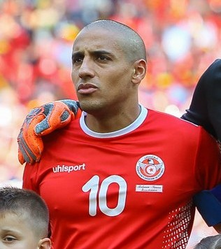 Tunisia national football team